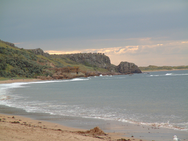 Gullane Bay Taken from the beach near the car park and looking towards Hummell Rocks and Gullane Point.